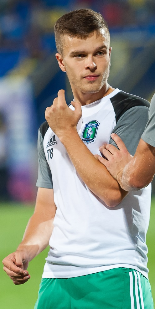 Pavel Kudryashov with FC Tom Tomsk before the game against FC Rostov.